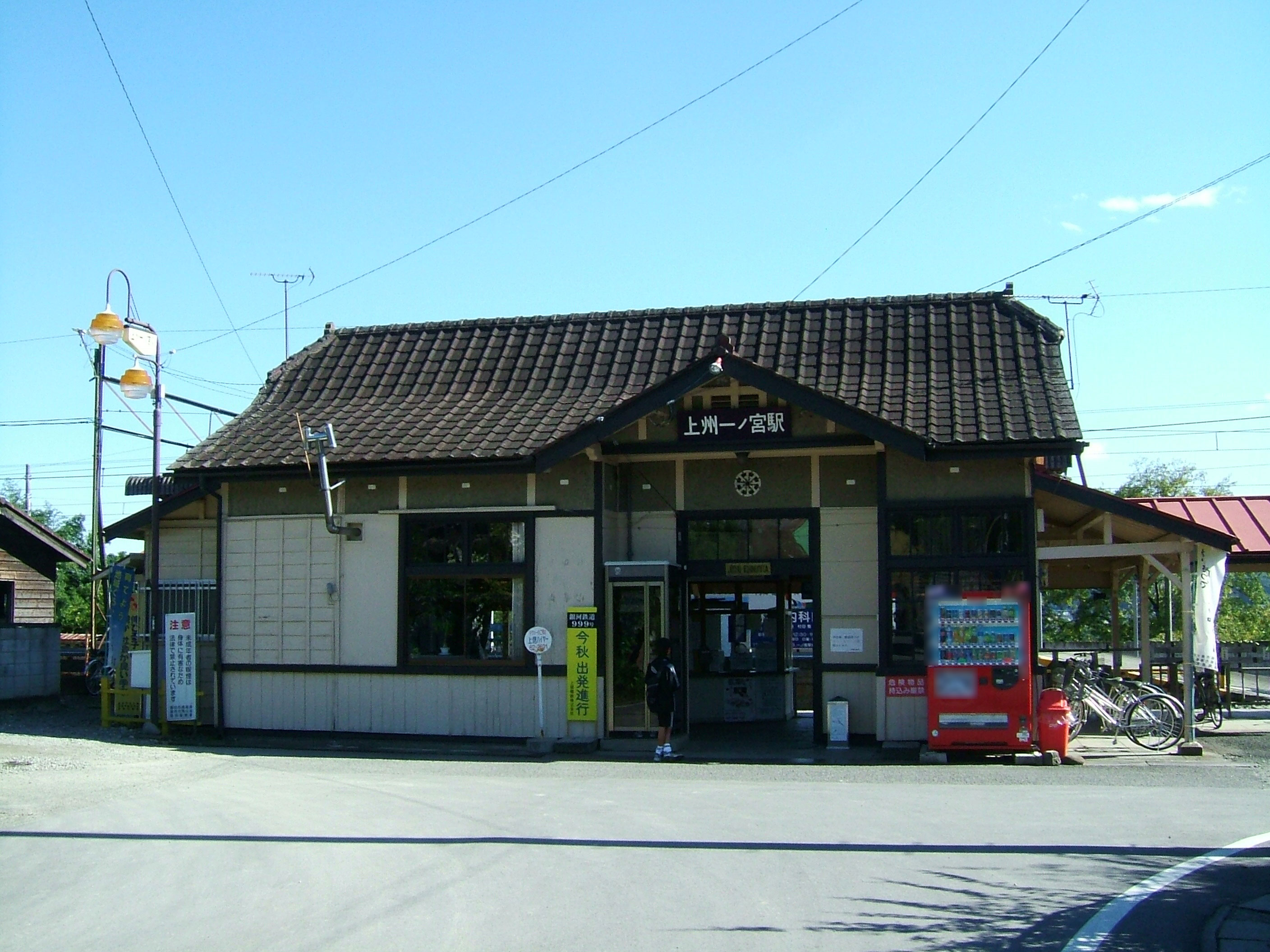 Jōshū-Ichinomiya Station building (Jōshin Dentetsu Jōshin Line)